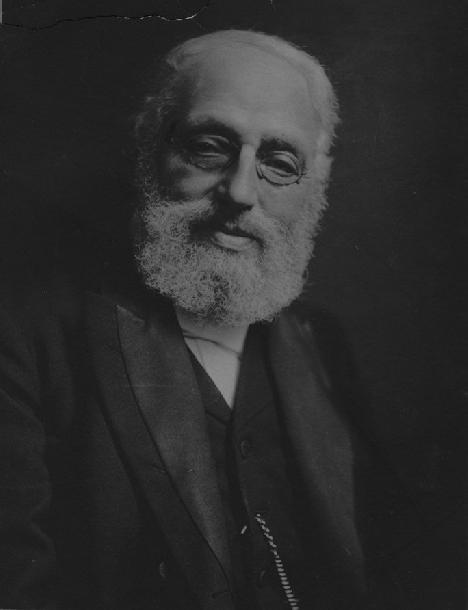 Marcus Jastrow, American rabbi and talmudist.